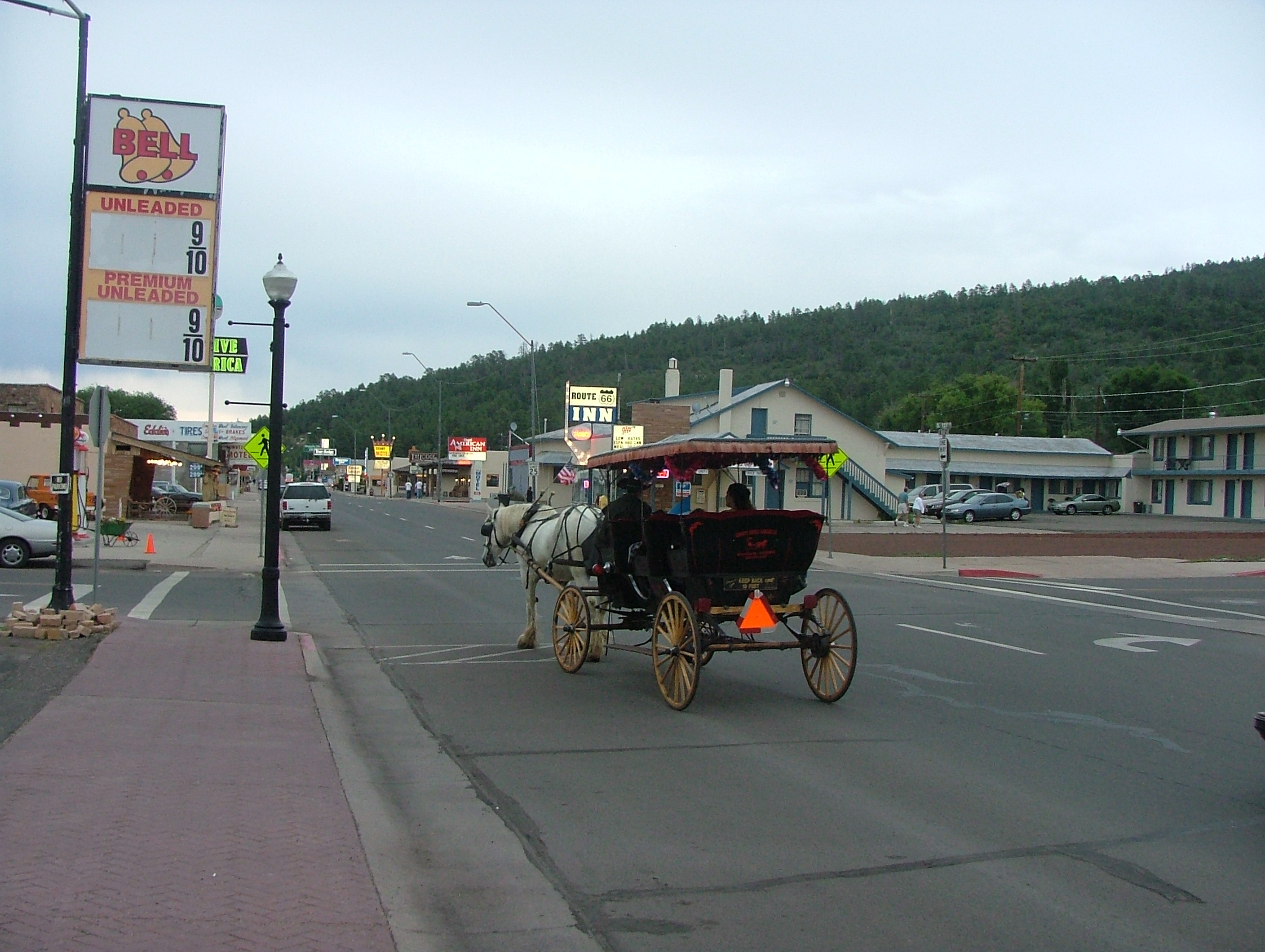 Stage Coach in Main Street Williams, Az